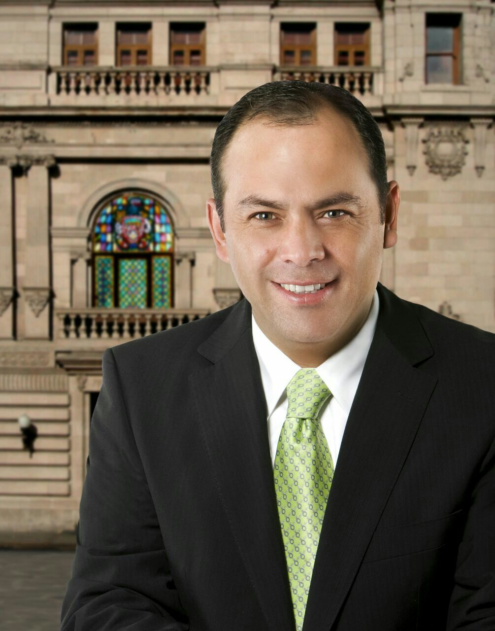 Marco Quezada Martinez